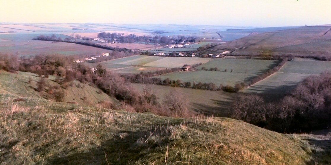 Photo taken by uploader in 1980 - No rights reserved